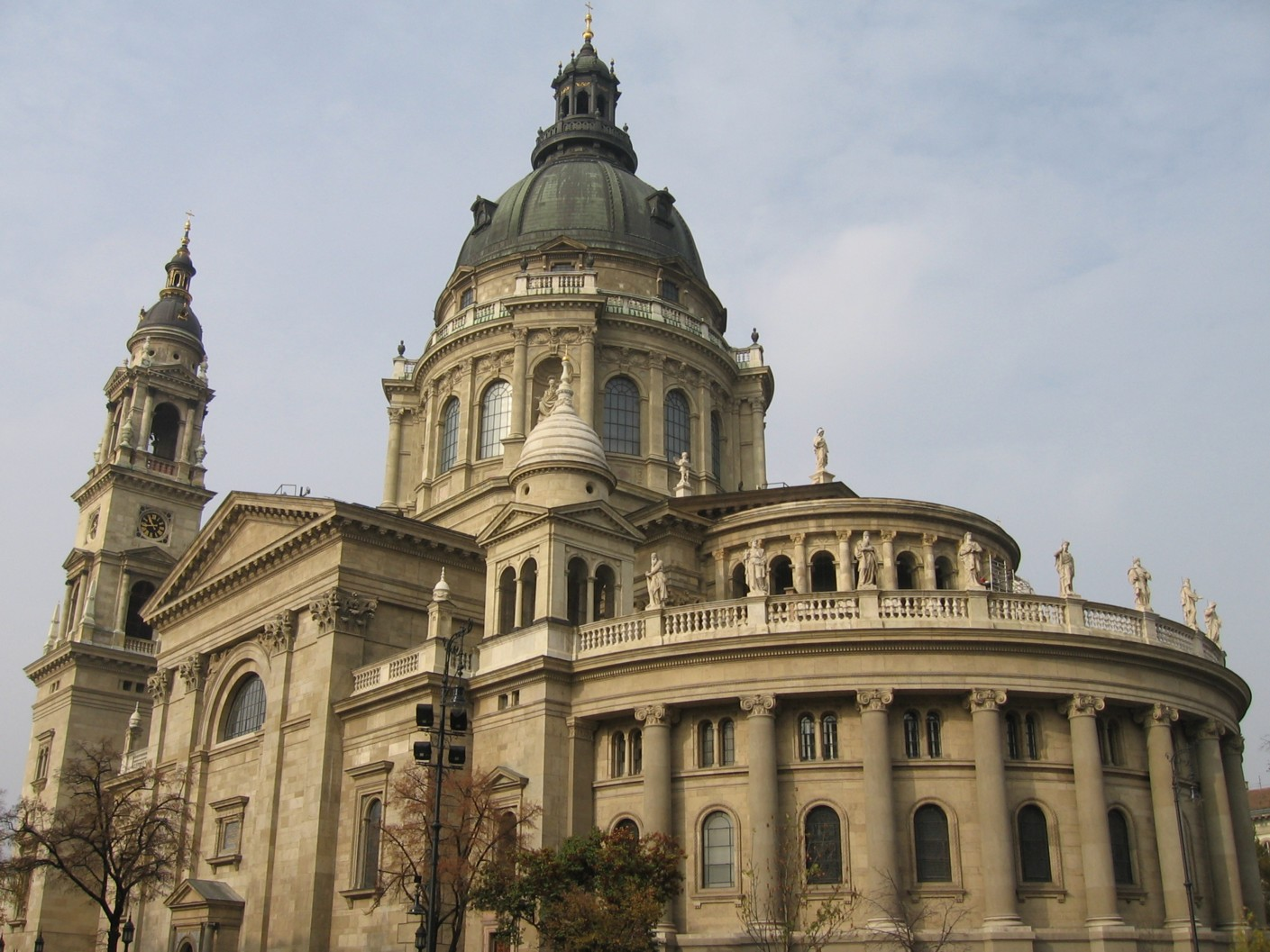 St. Stephen's Basilica, Budapest